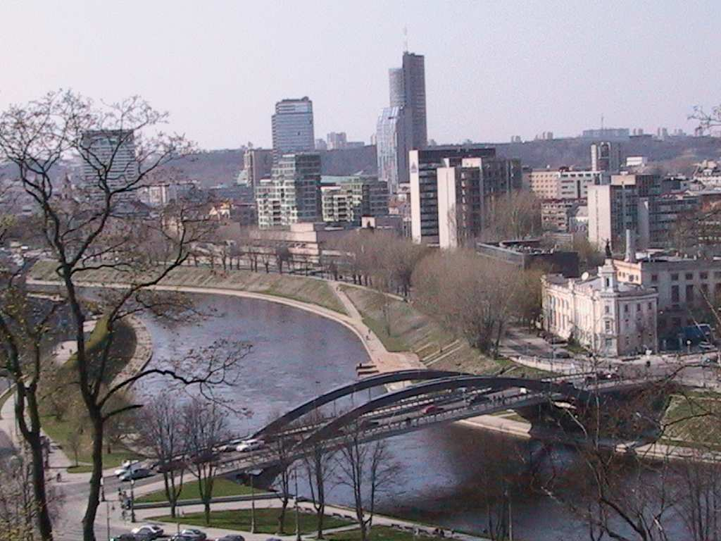 Modern building in Vilnius (indaugas bridge, government building)